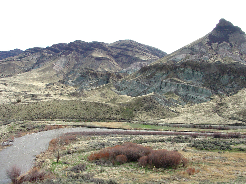 John Day Fossil Beds National Monument, Oregon - This view shows more detail of the John Day Formation and the overlying Columbia lavas (Picture Gorge Basalt) exposed on the mountainsides north of Sheep Rock. In the foreground, erosion along the John Day River exposes Quaternary-age terrace gravels in the riverbank. This view is from the Sheep Rock Overlook along Highway 19.